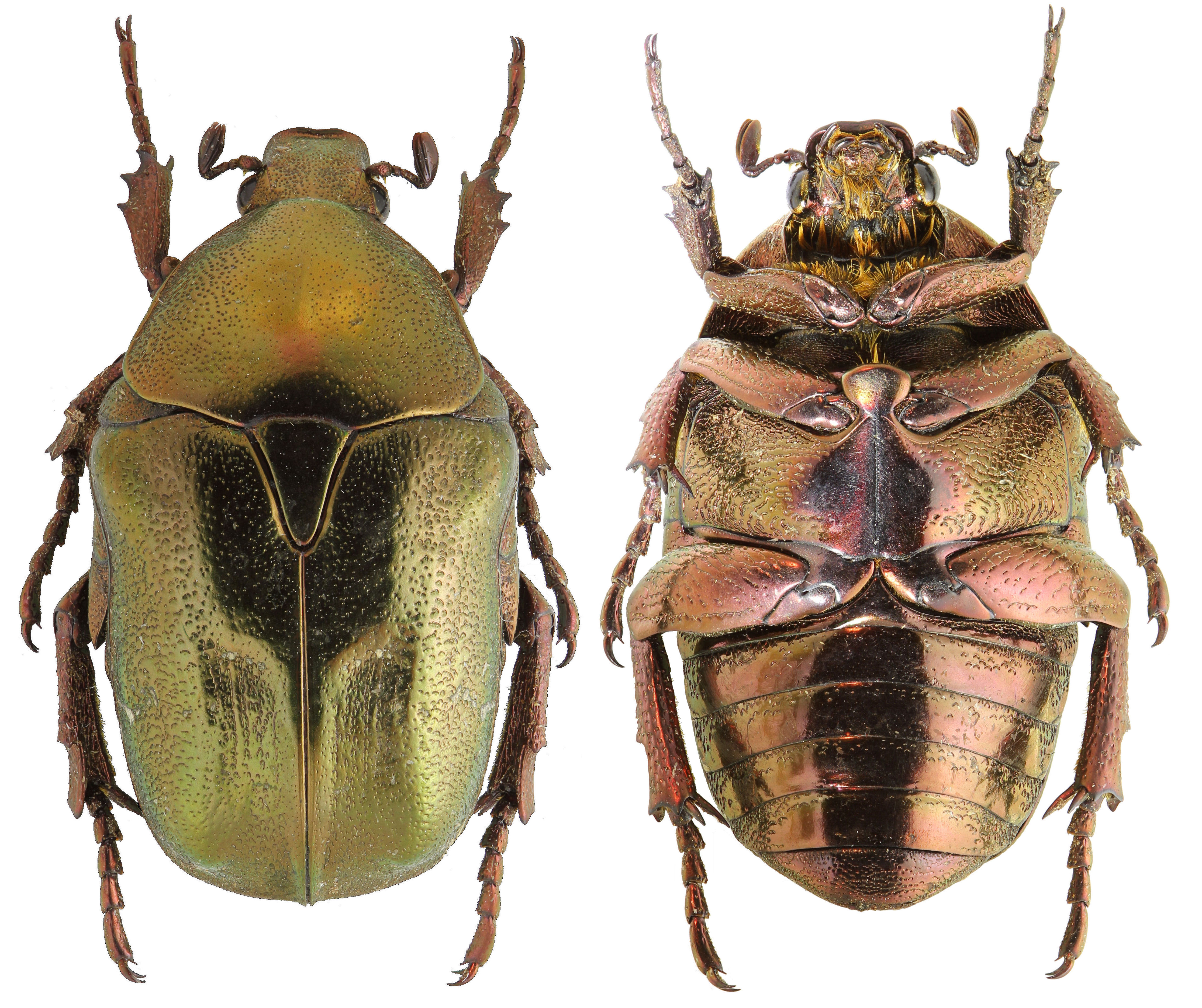 Protaetia (Netocia) fieberi fieberi. Dorsal and ventral habitus. Focus stacking montage. Edited.